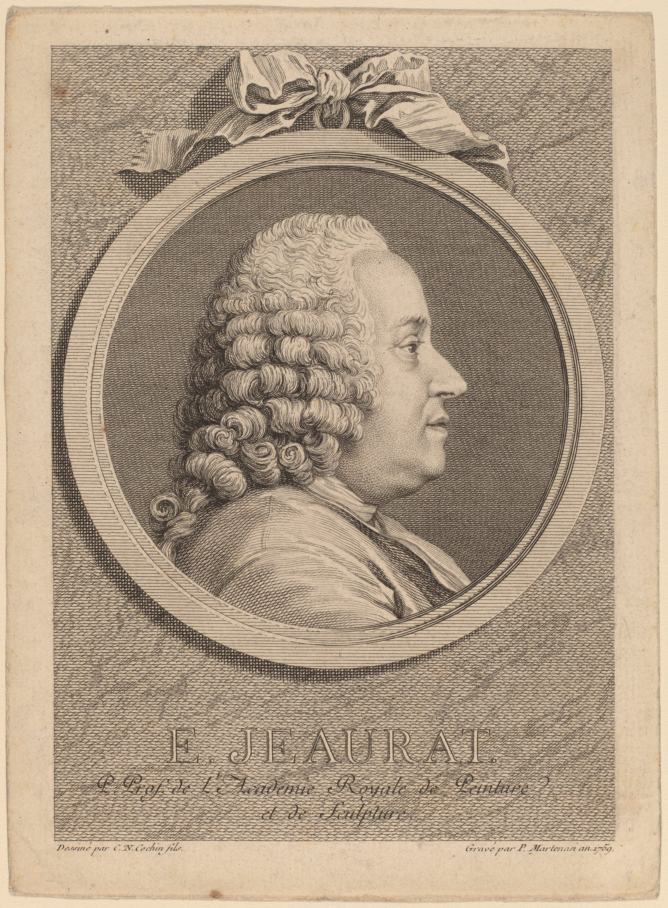 Portrait of Edme-Sébastian Jeaurat (1725-1803), French astronomer, engraving over etching